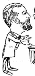 This drawing shows William Ellsworth Smythe, editor of Irrigation Age at a meeting of the National Irrigation Congress in Los Angeles in 1893. It was taken from the image of the Los Angeles Times as furnished on the Los Angeles Public Library website. This image is in the public domain because of its age.